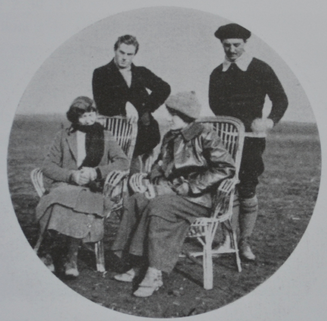 Aviatrix Rosina Ferrario (sitting, to the right) with apprentice aviatrix Ester Mietta and flight instructors Fabbri and Maggiora.